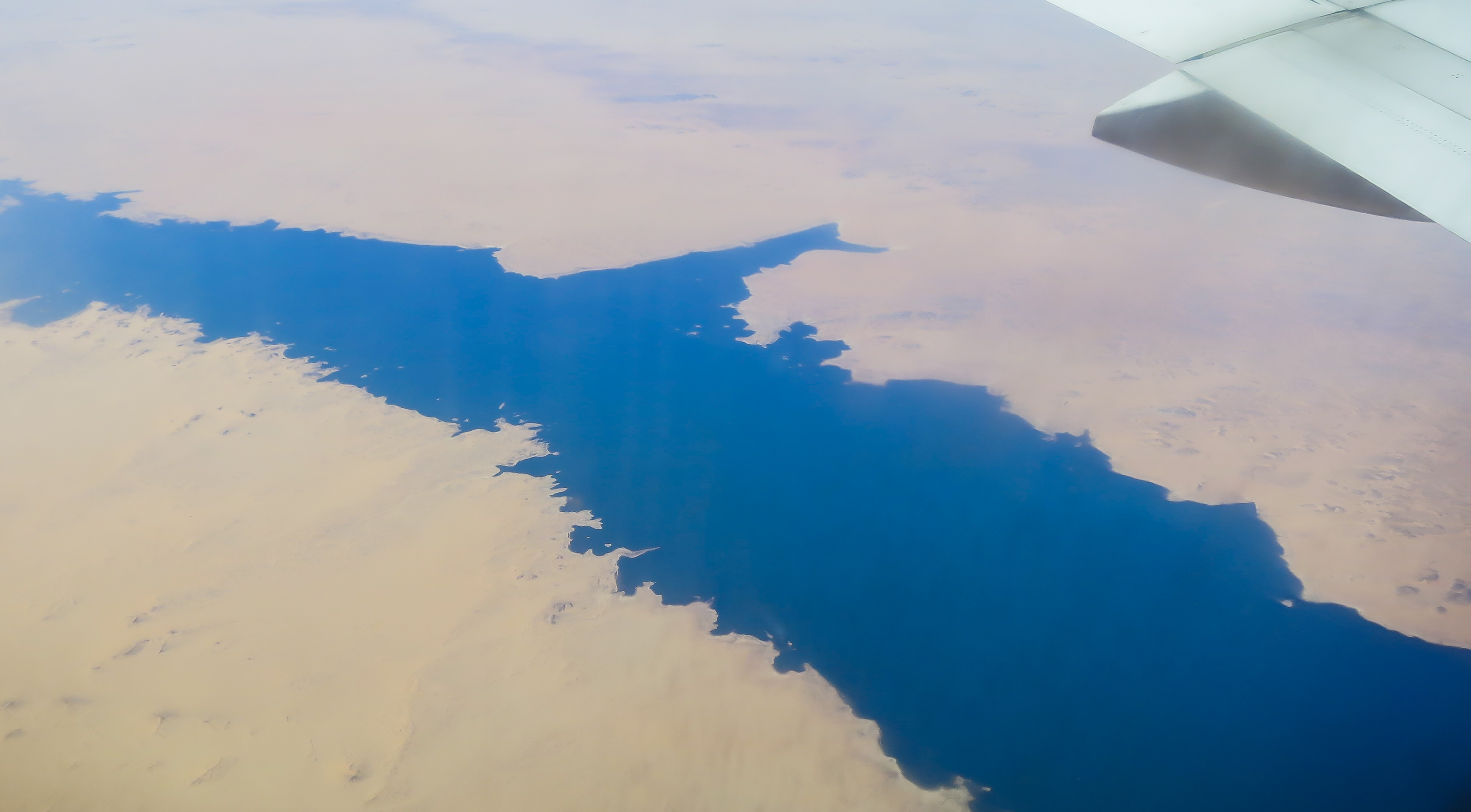 Nile River as seen from an airplane at the border of Egypt and Sudan